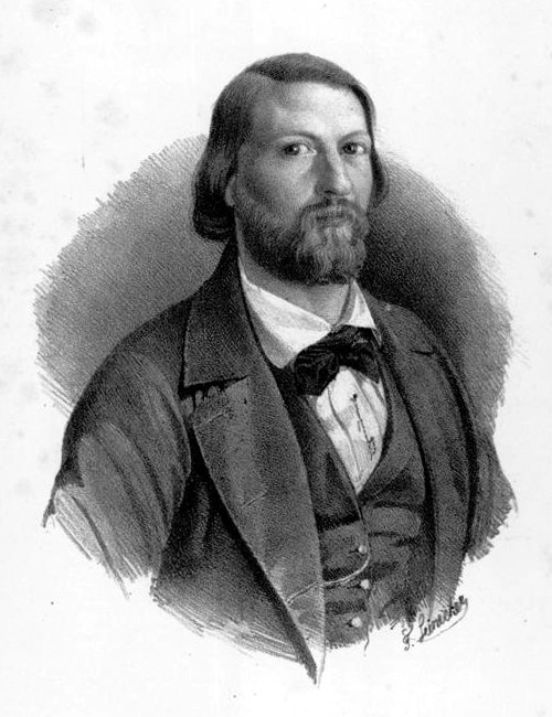 Depicted person: Carl Ludwig Fischer